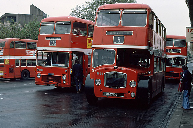 Buses outside York Railway Station A gaggle of Bristol vehicles with Eastern Coachworks bodies stand outside the railway station. The vehicles belong to the York-West Yorkshire fleet, which was part of the National Bus Company. The driver of 3836, a Bristol FS, can be seen chatting with the driver of 3923, a Bristol VR.